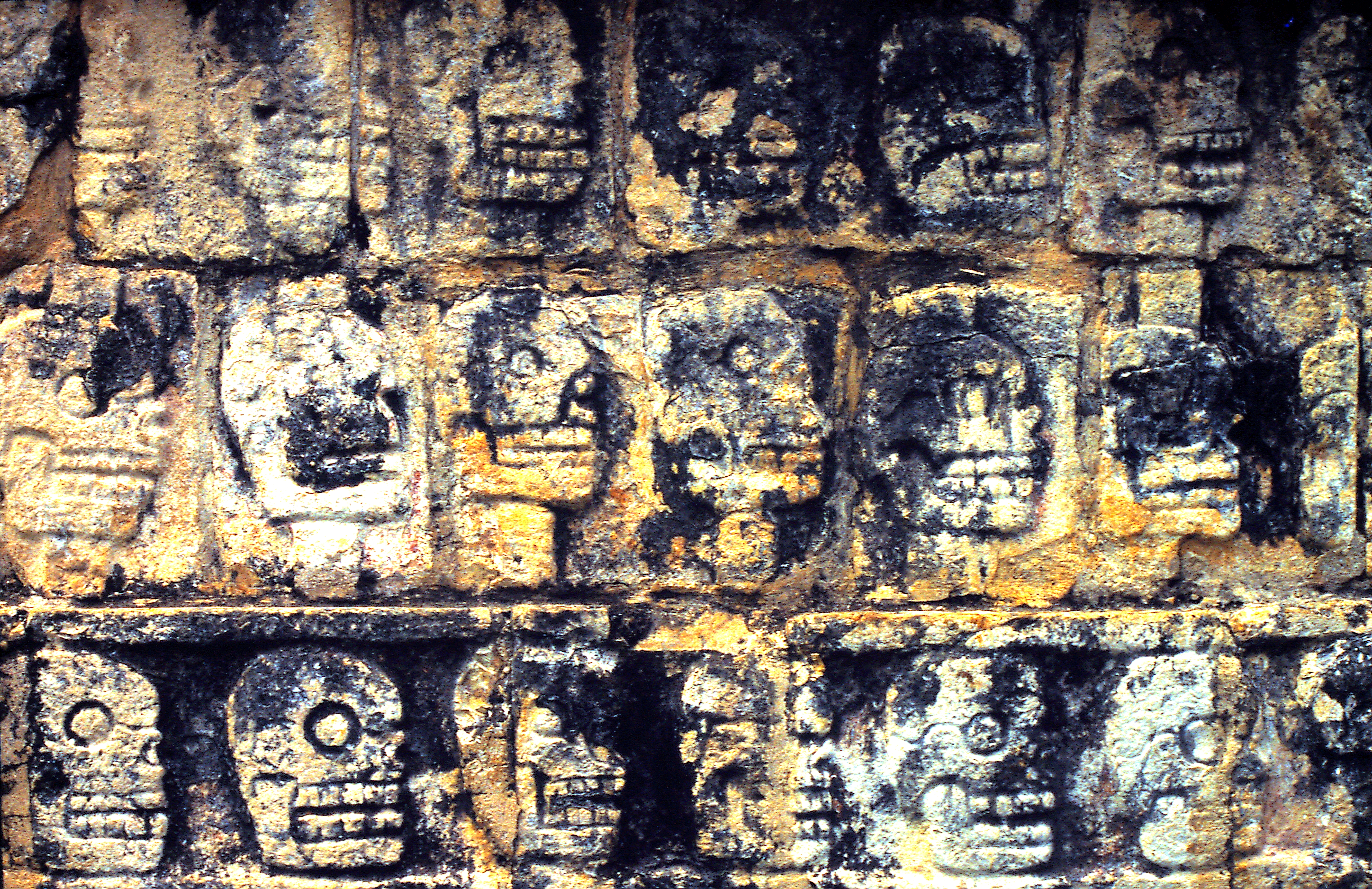 carved skulls (detail)